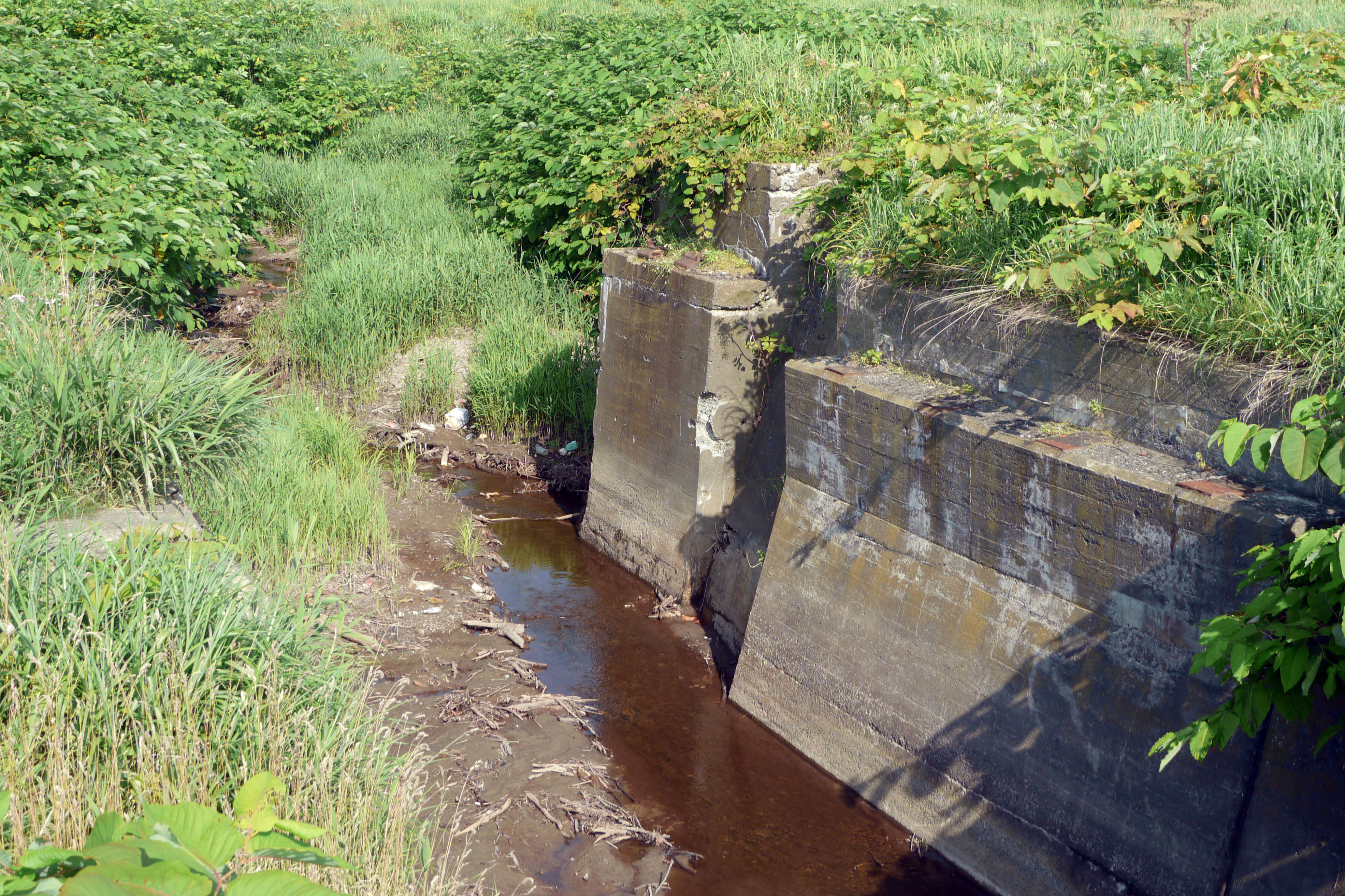 Remains of a bridge of the former Haboro Line in Hokkaido, Japan